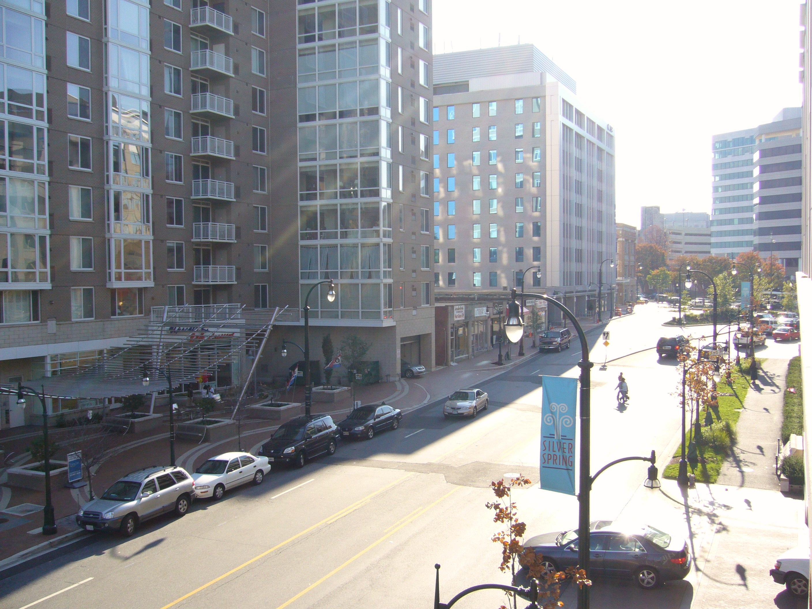 Downtown Silver Spring, Maryland